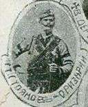 Portrait of IMARO member St. Stoyanov from Orizari